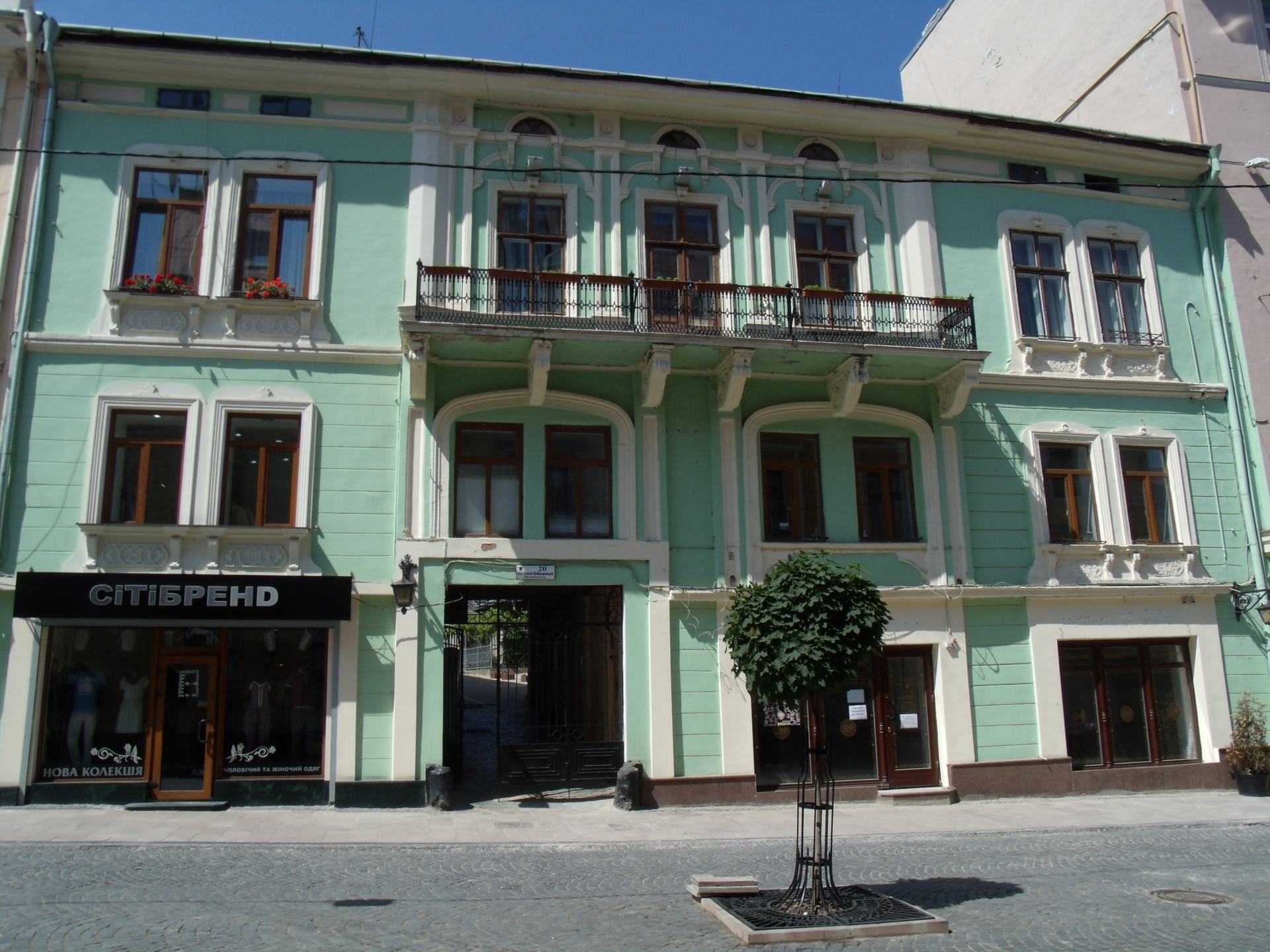 Chernivtsi, Kobylianska house 20